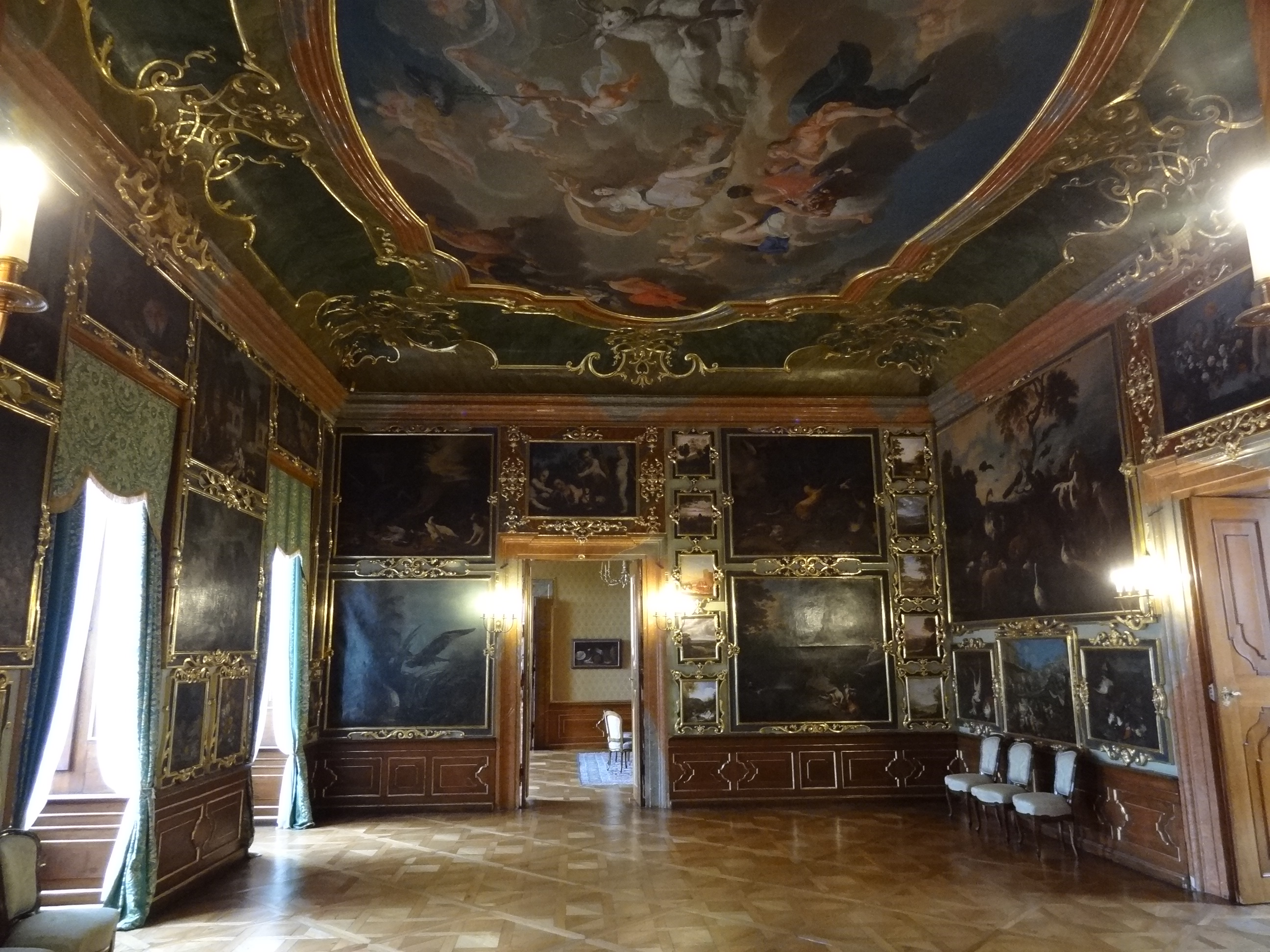 Castle Valtice interior